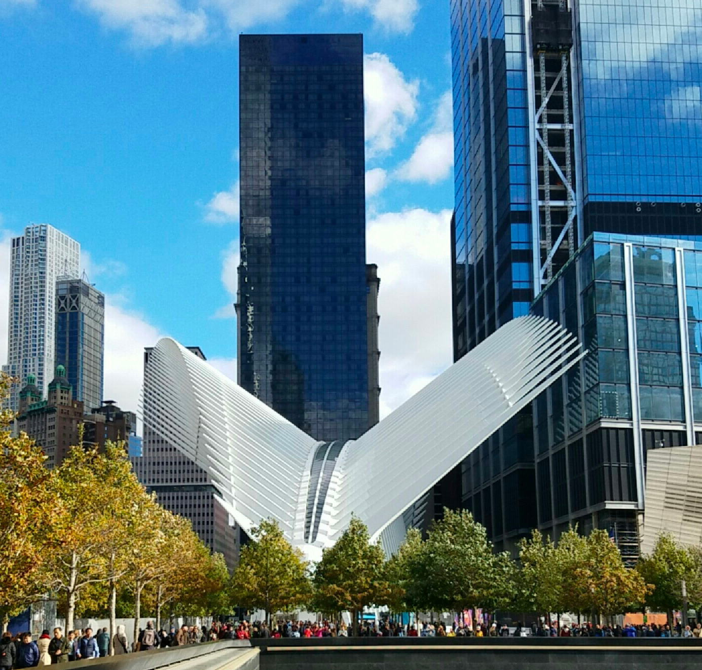 Westfield World Trade Center from outside in Manhattan in daylight.